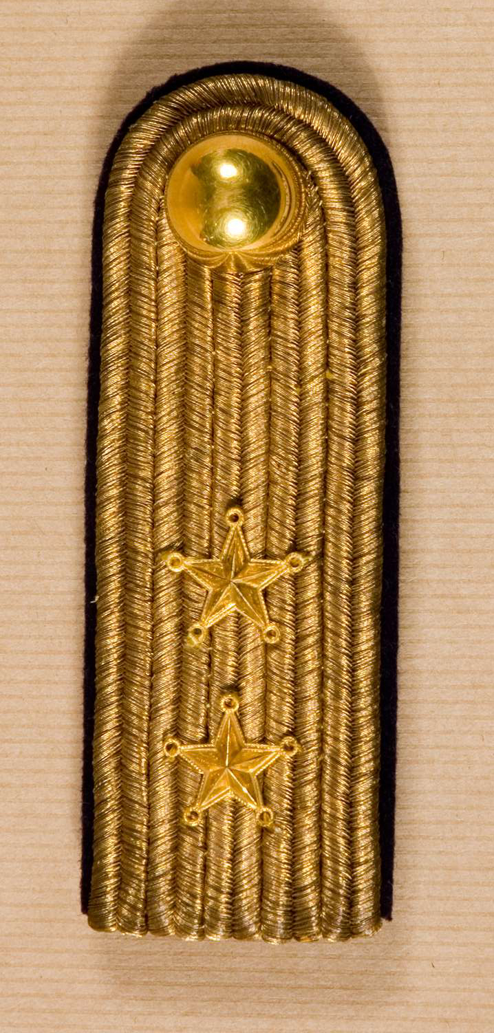 Axelklaff m/1895 för kompaniofficer (löjtnant) vid Karlskrona grenadjärregemente (I 7).